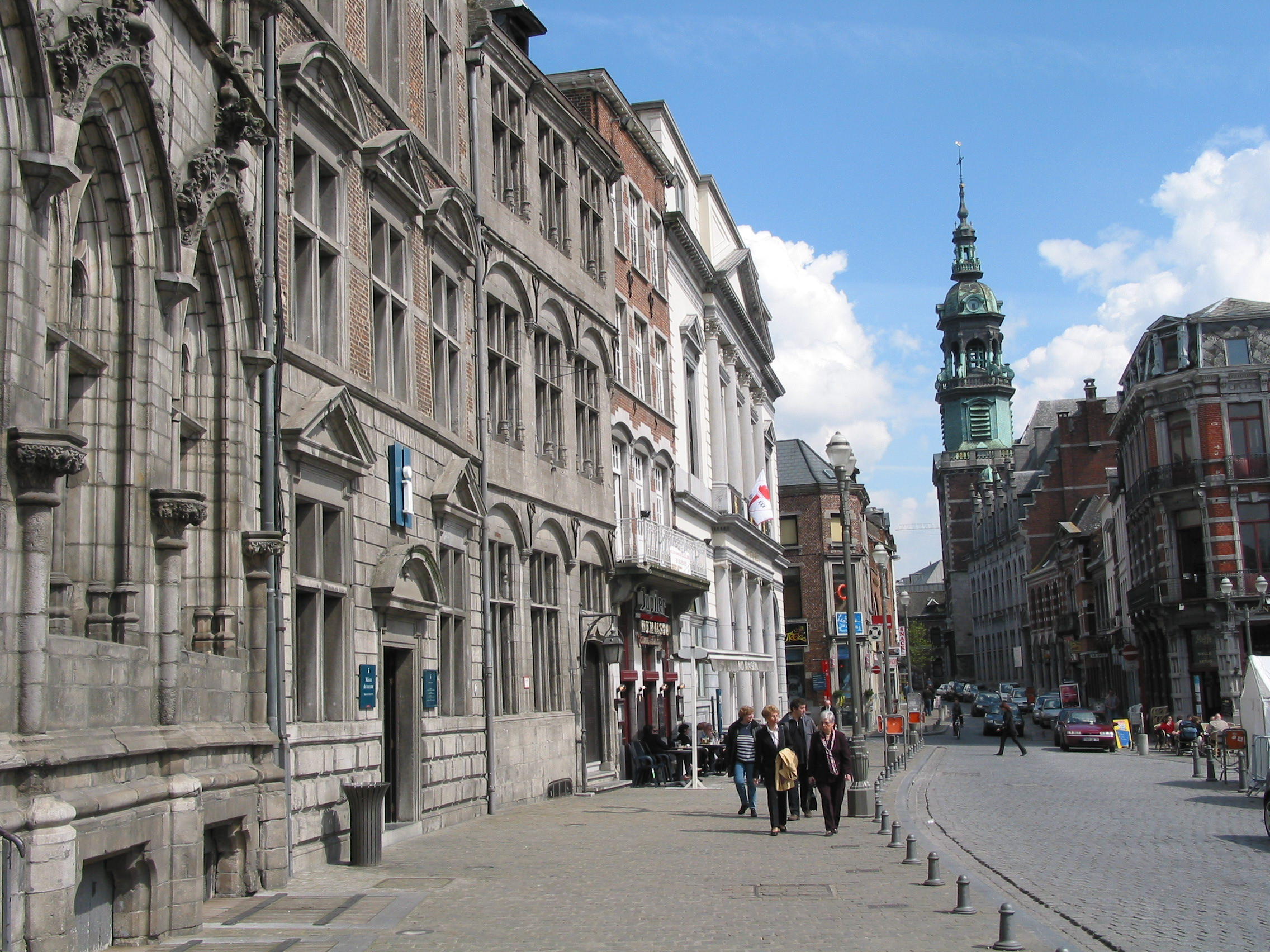 Mons (Belgium), old houses of the Grand'Place, begin of the Nimy street and bell tower of St. Elisabeth churh.